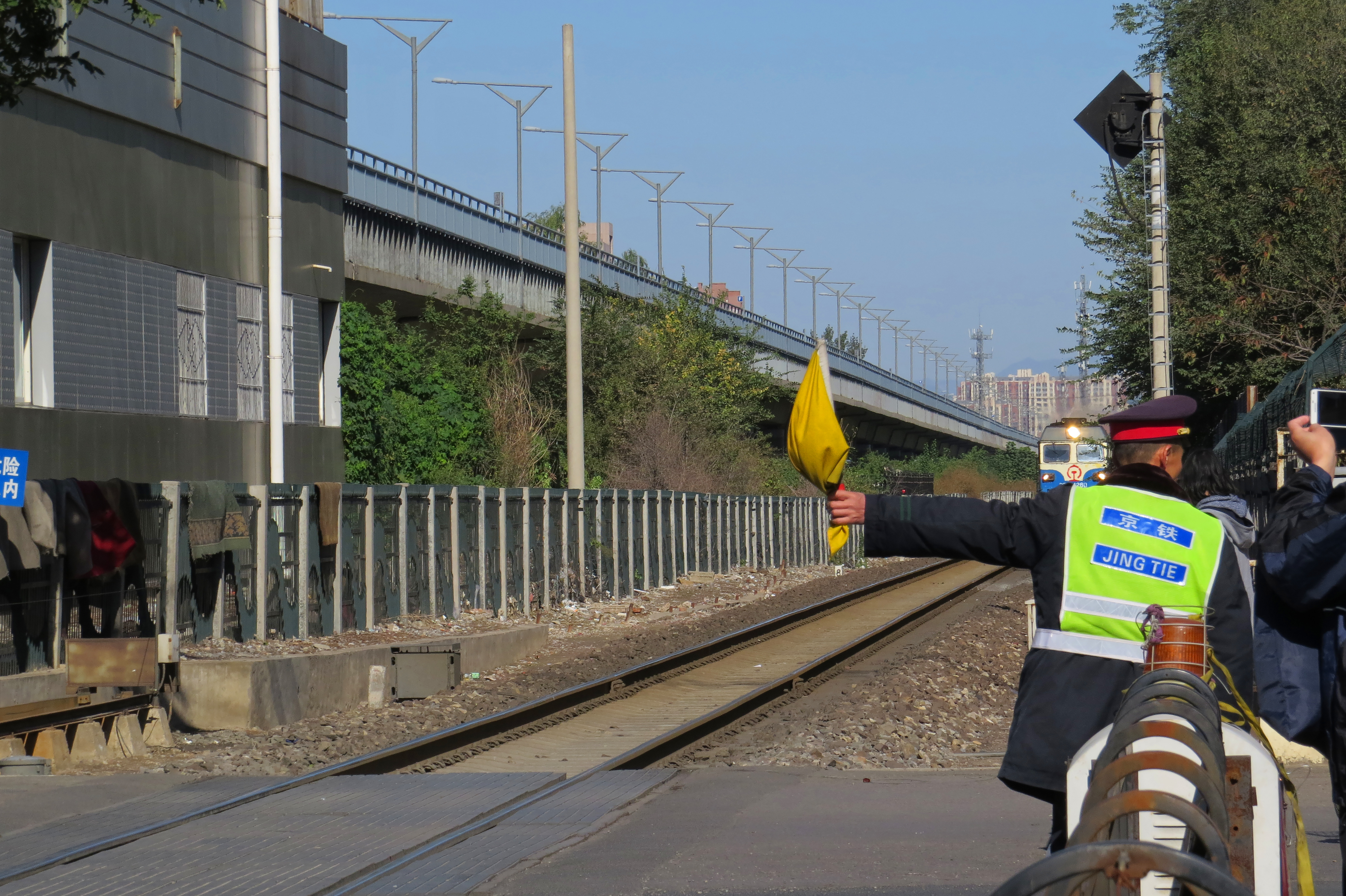 【伝説から神話へ -WUDAOKOU…AT LAST-】K1596 from Wuhai West. This is the last non-S2 train from Guangou to Xizhimen.